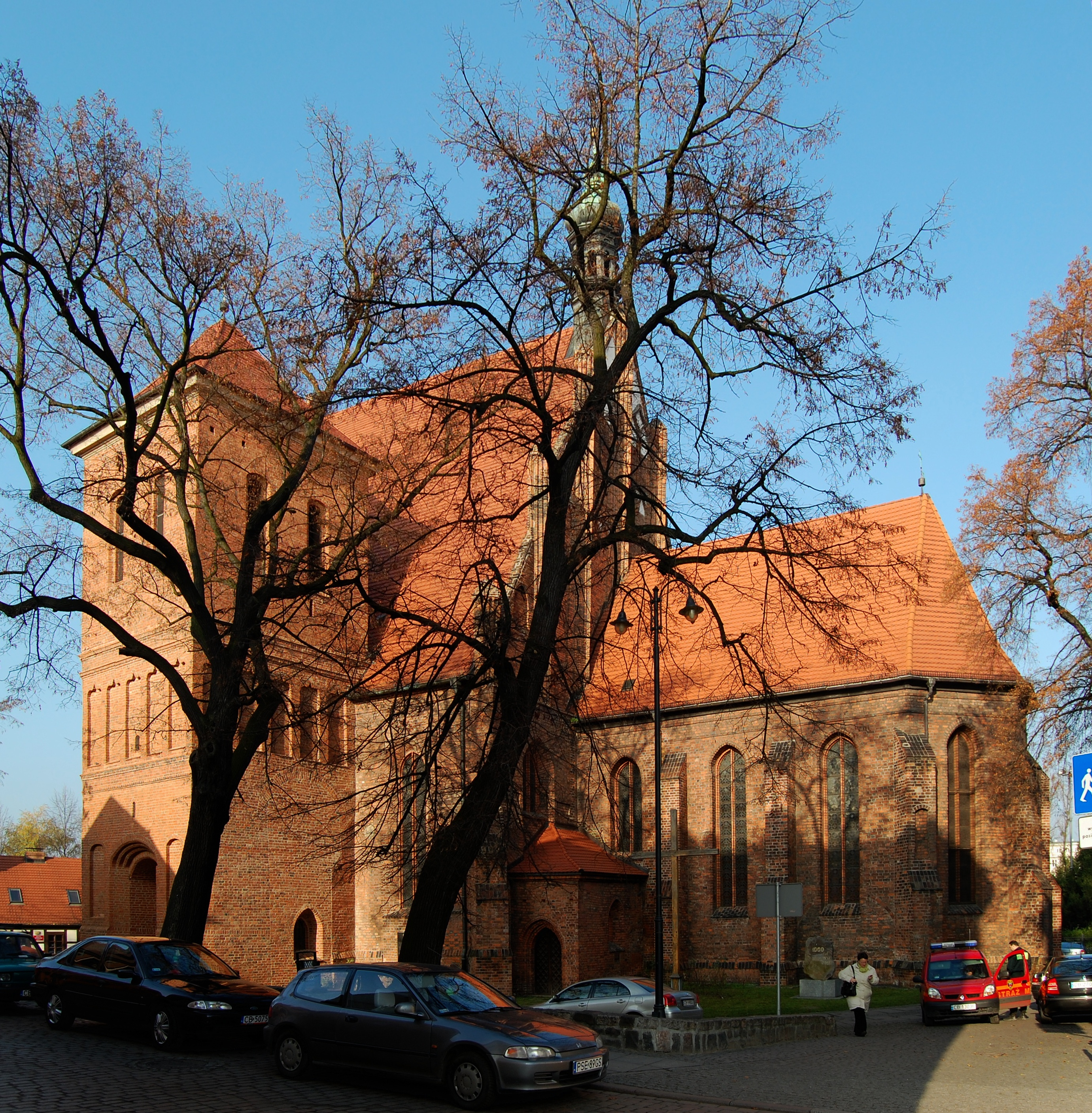 Cathedral in Bydgoszcz, Poland.